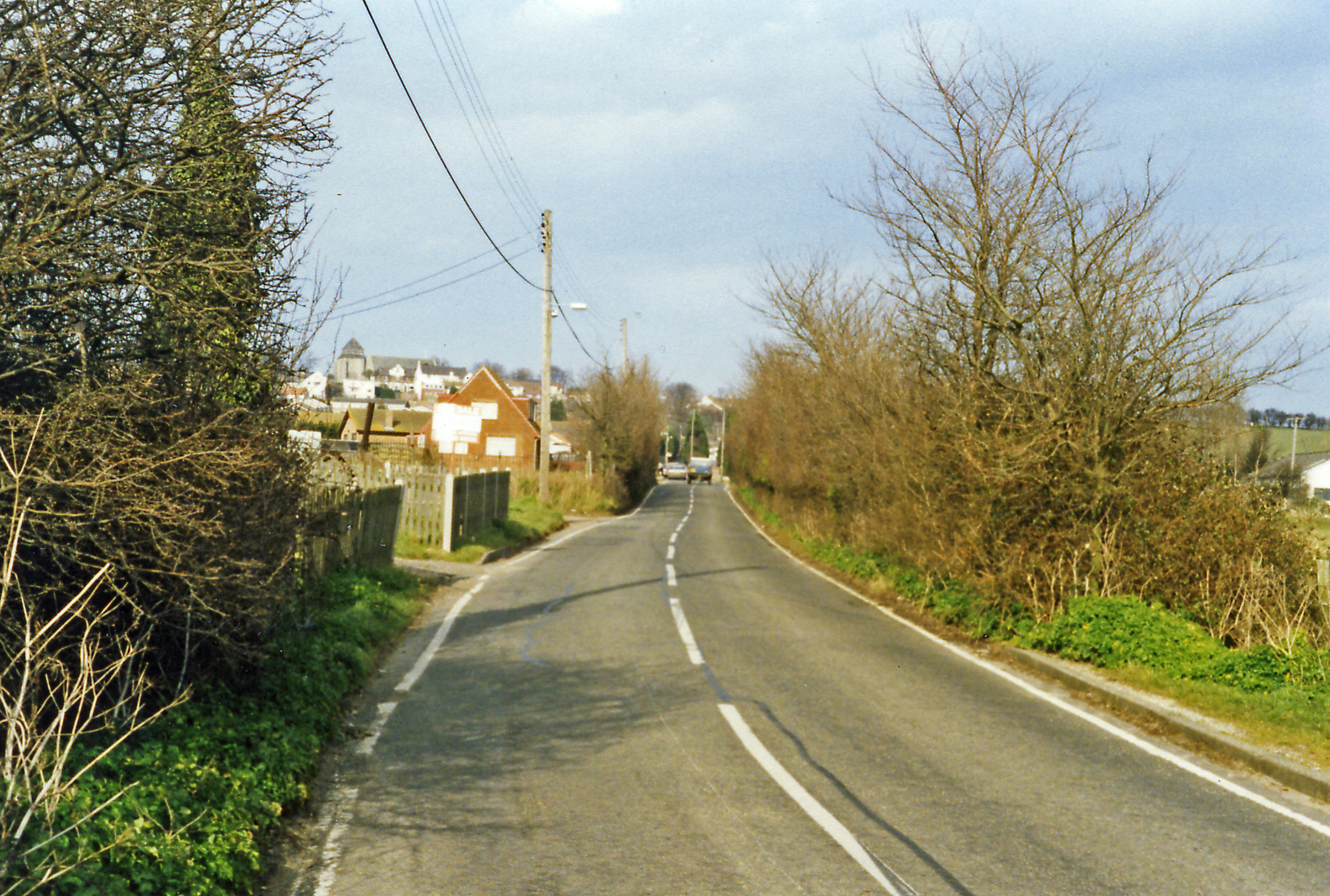 Site of former East Minster-on-Sea Halt, 1995. View eastward on A250, towards Minster-on-Sea and Leysdown: ex-SE&CR Sheppey (Queenborough - Leysdown) Light Railway, all closed 4/12/50.